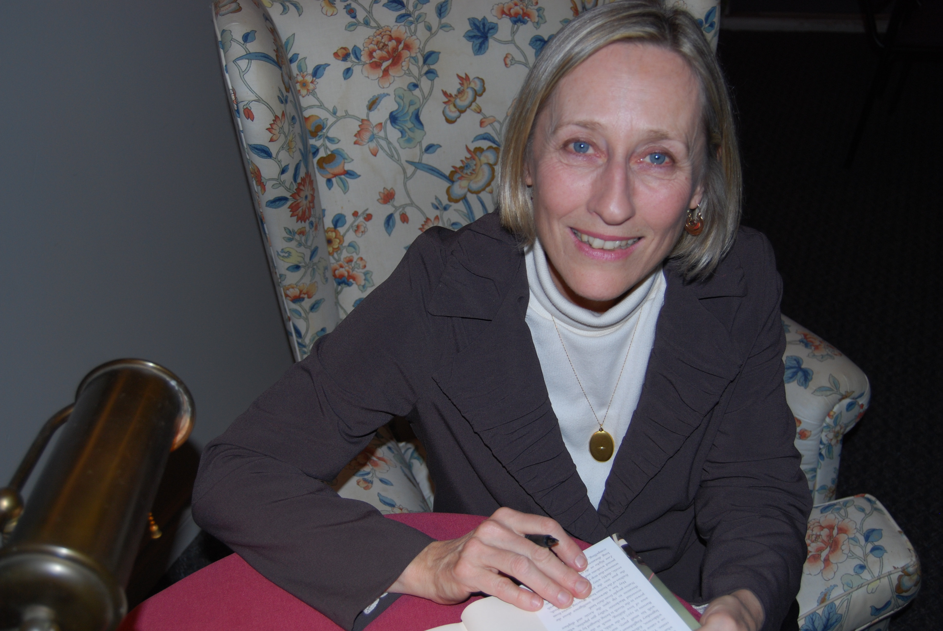 Wendy was so kind to invite me to the Roselawn Author Series where we were lucky enough to hear Elizabeth Hay read an excerpt from her book, "Late Nights on Air"